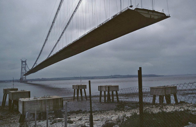 Humber Bridge under construction, at Hessle Foreshore, Hessle, East Riding of Yorkshire, England.Plans for a crossing of the Humber Estuary date back to the 19th century, but it was in 1966 that Barbara Castle, then Minister of Transport, sanctioned construction of this suspension bridge. Notoriously, the government was facing a difficult by-election in Hull at the time and the announcement was widely seen as a blatant election bribe. Nevertheless, construction began in 1973 and work was well advanced by the time of this 1980 view; the bridge was finally opened in June 1981. The cost was £151 million, well in excess of the original estimates. The bridge now carries about 6 million vehicles a year, but the tolls remain controversial and it is a moot point as to whether the whole enterprise has ever represented value for money.